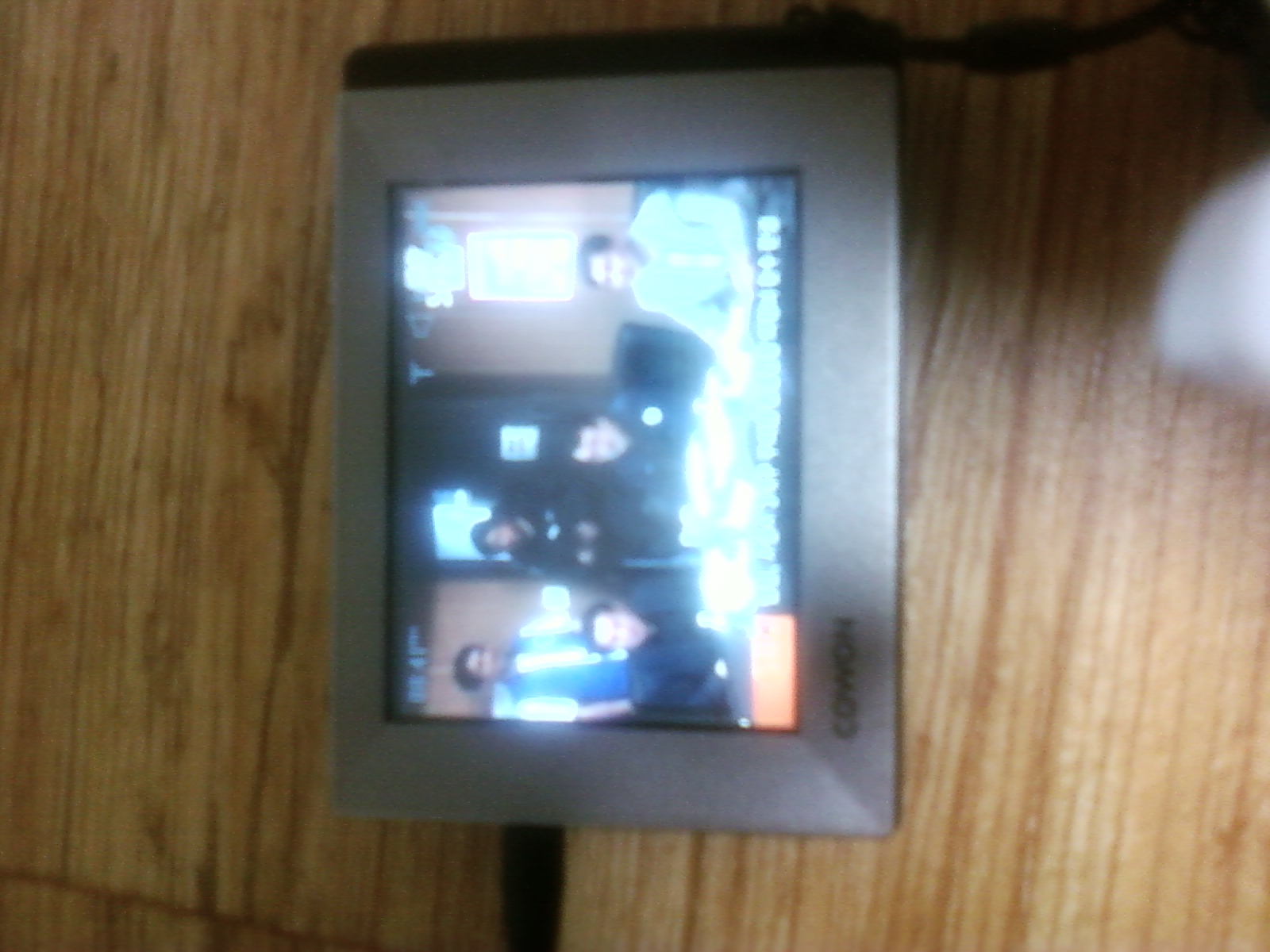 COWON D2+ DMB Silver